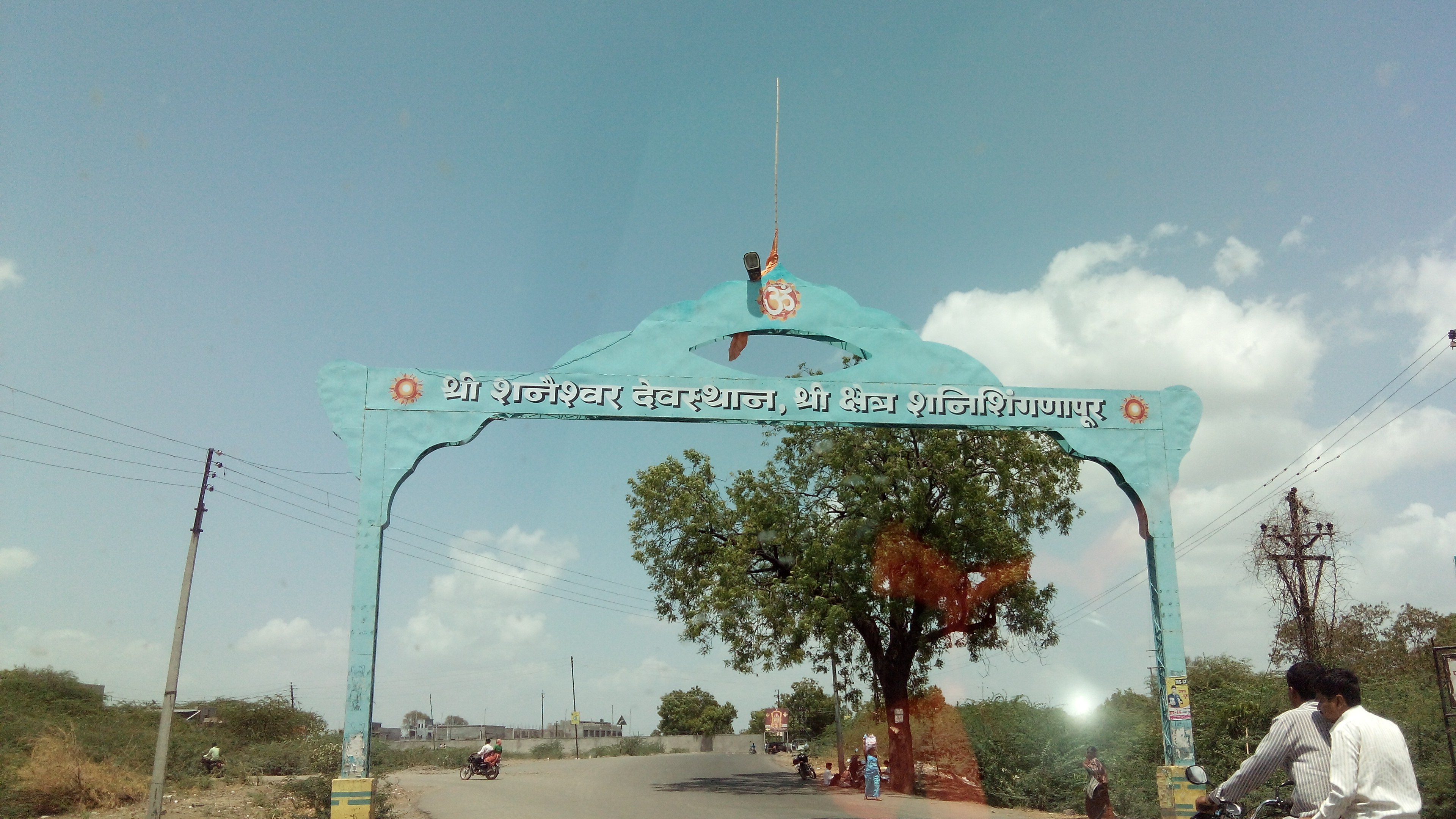 Picture showing entrance gate for Shani Shingnapur